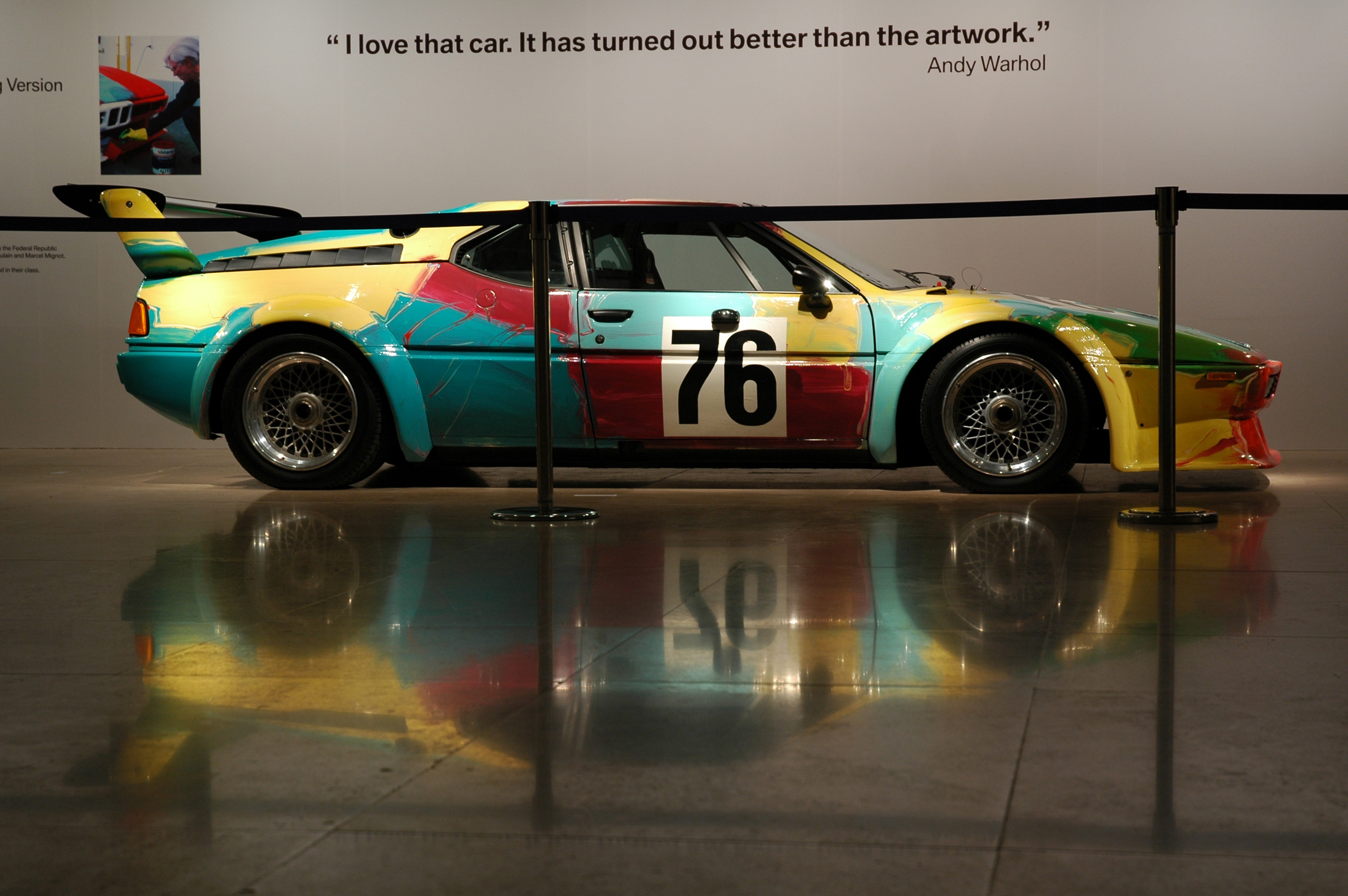 BMW M1 Art Car